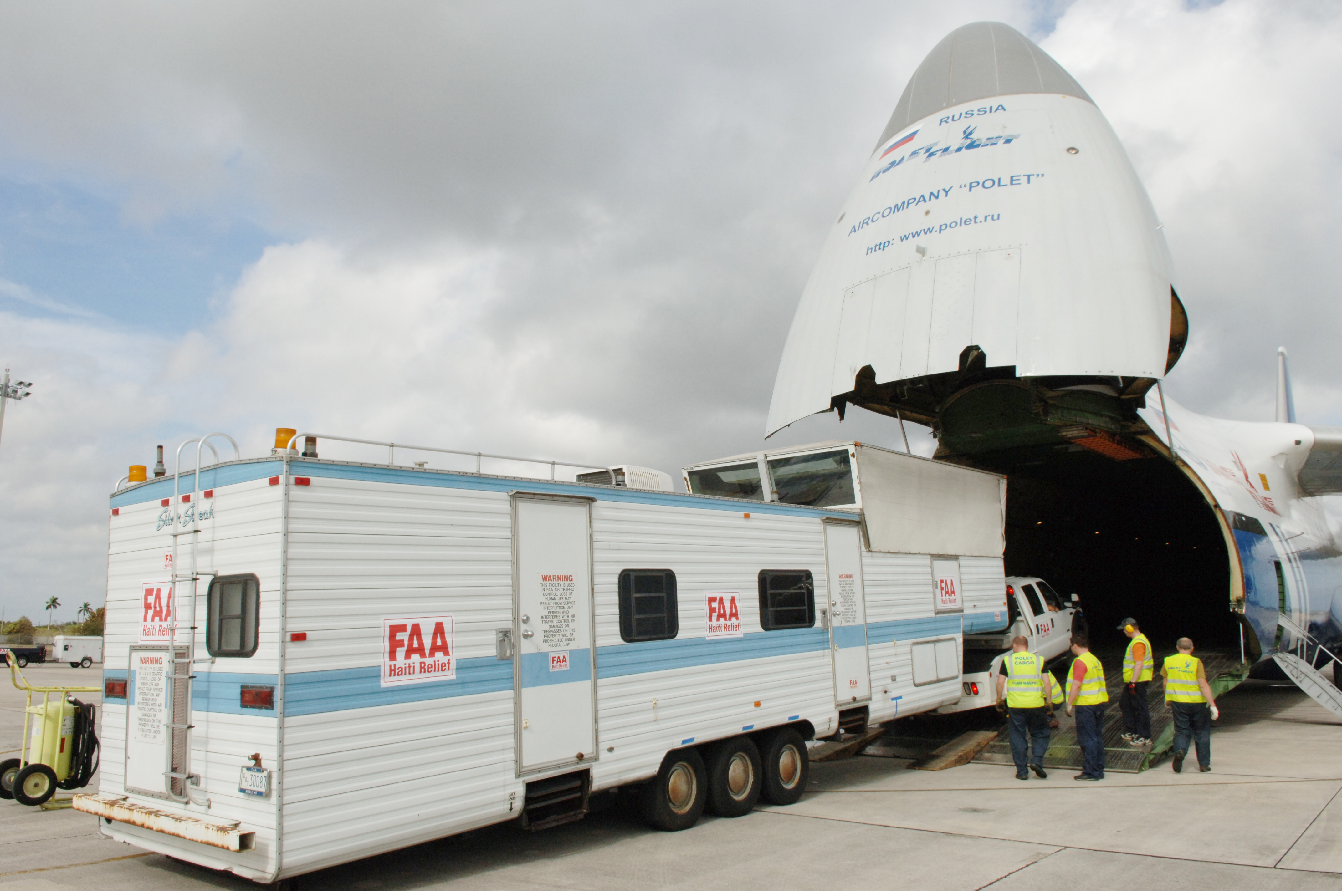 A Federal Aviation Administration mobile air traffic control tower is loaded onto a Russian Antonov An-124-100 (Polet Airlines) long-range heavy transport aircraft at Homestead Air Reserve Base, Fla., Jan. 21, 2010. The mobile air traffic control tower will increase the efficiency of pilots delivering aid to earthquake victims in Haiti. VIRIN: 100121-F-1467B-005